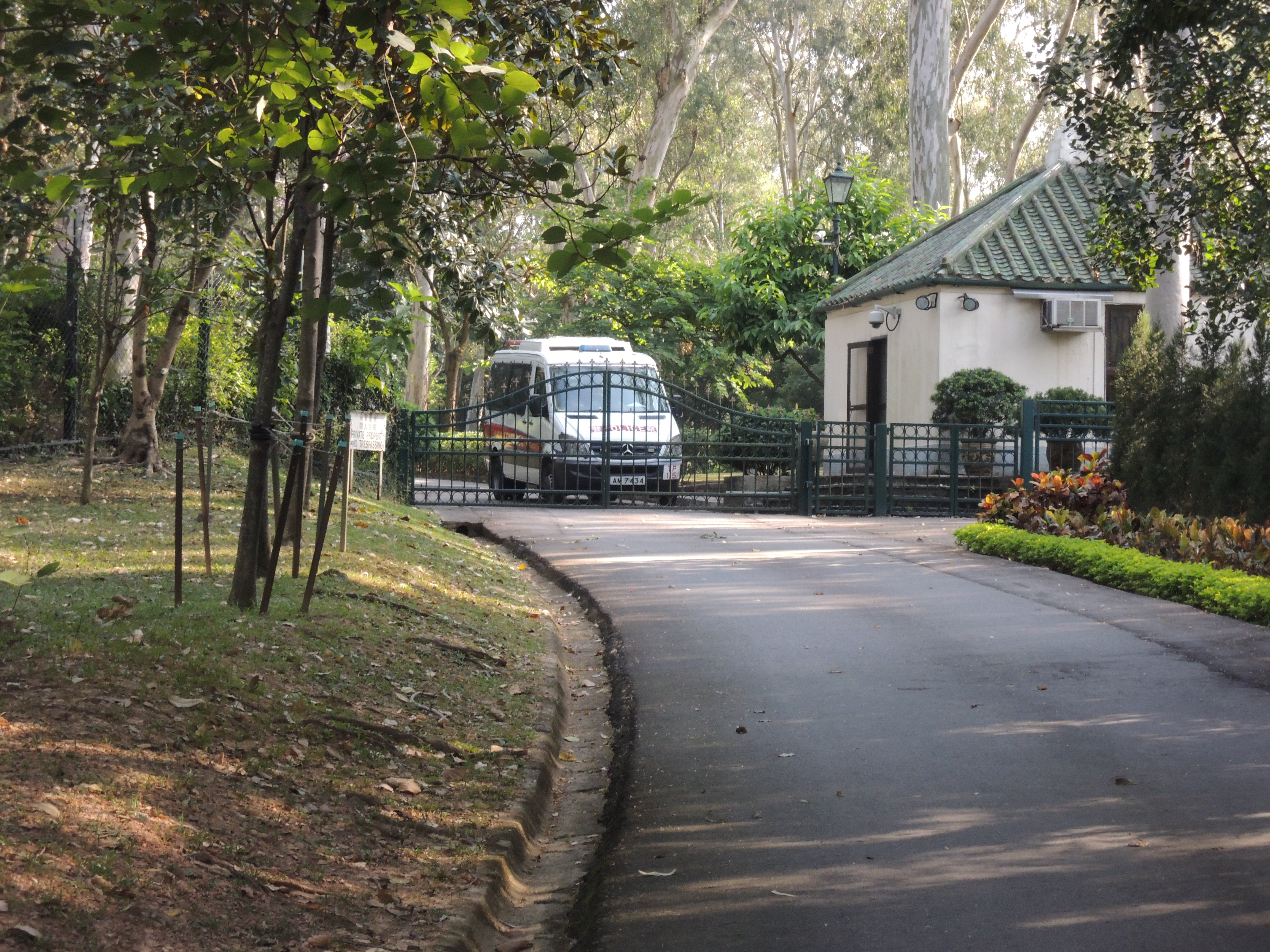 Access to Fanling Lodge from Fanling golf course